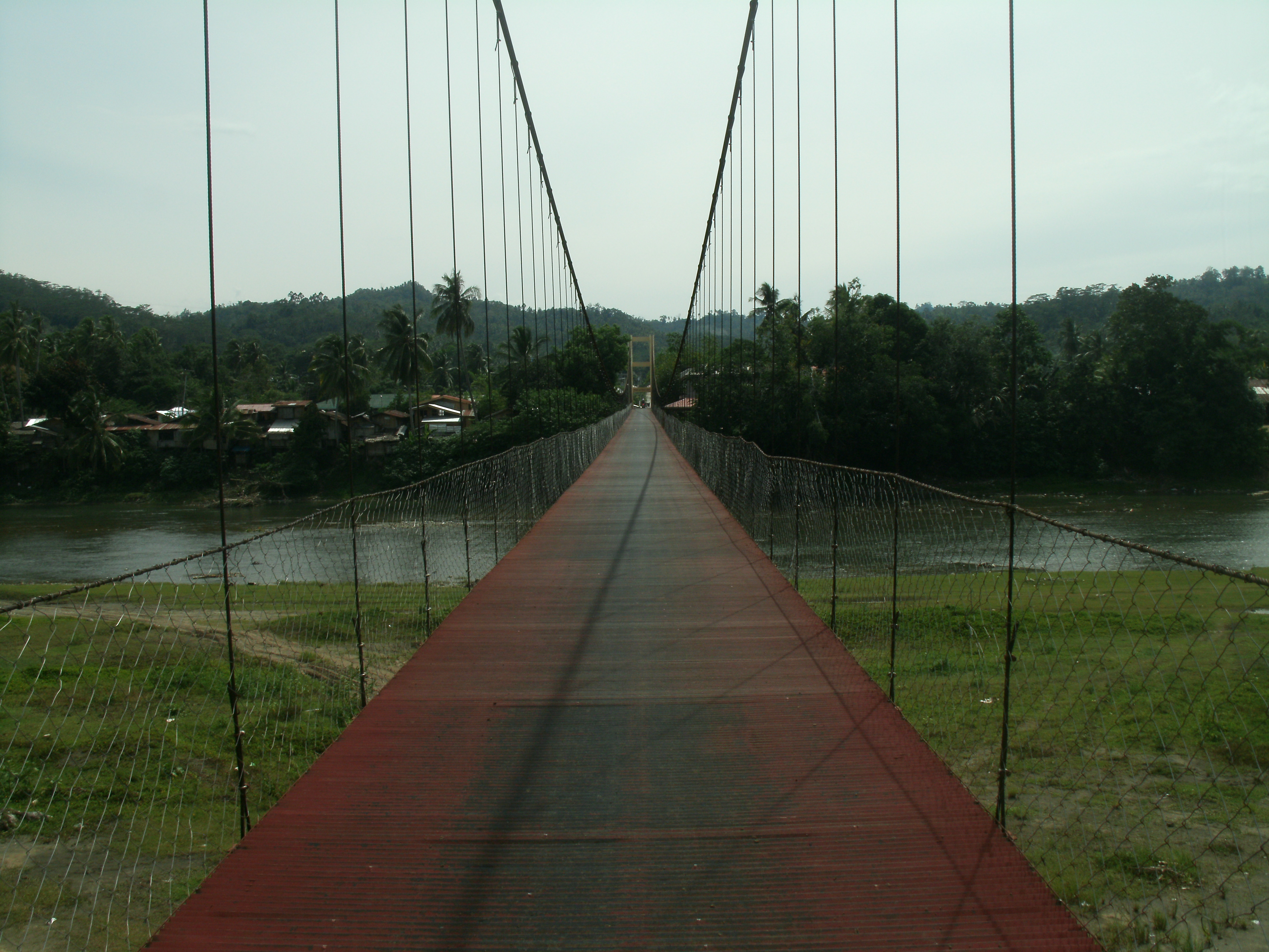 The bridge connecting Brgys. Tag-oyango and Poblacion in Sibagat, Agusan del Sur